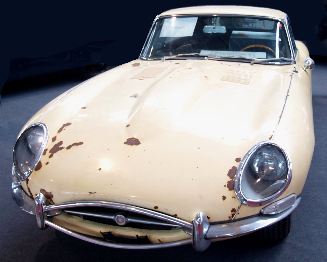 Barn find: Old Jaguar e-Type at an auction in Germany